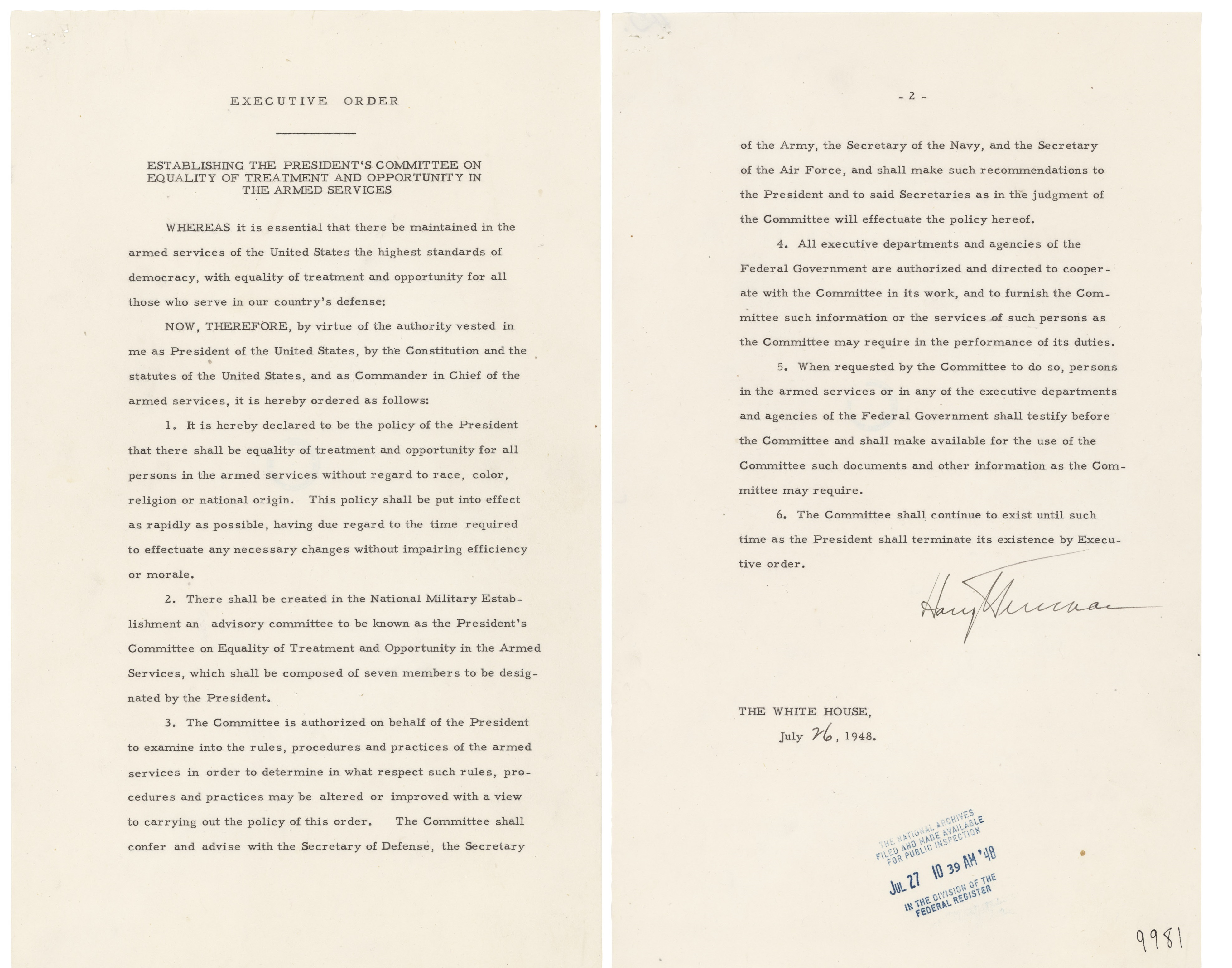 Executive Order 9981 dated July 26, 1948 in which President Harry S. Truman bans the segregation of the Armed Forces., 07/26/1948 - 07/26/1948